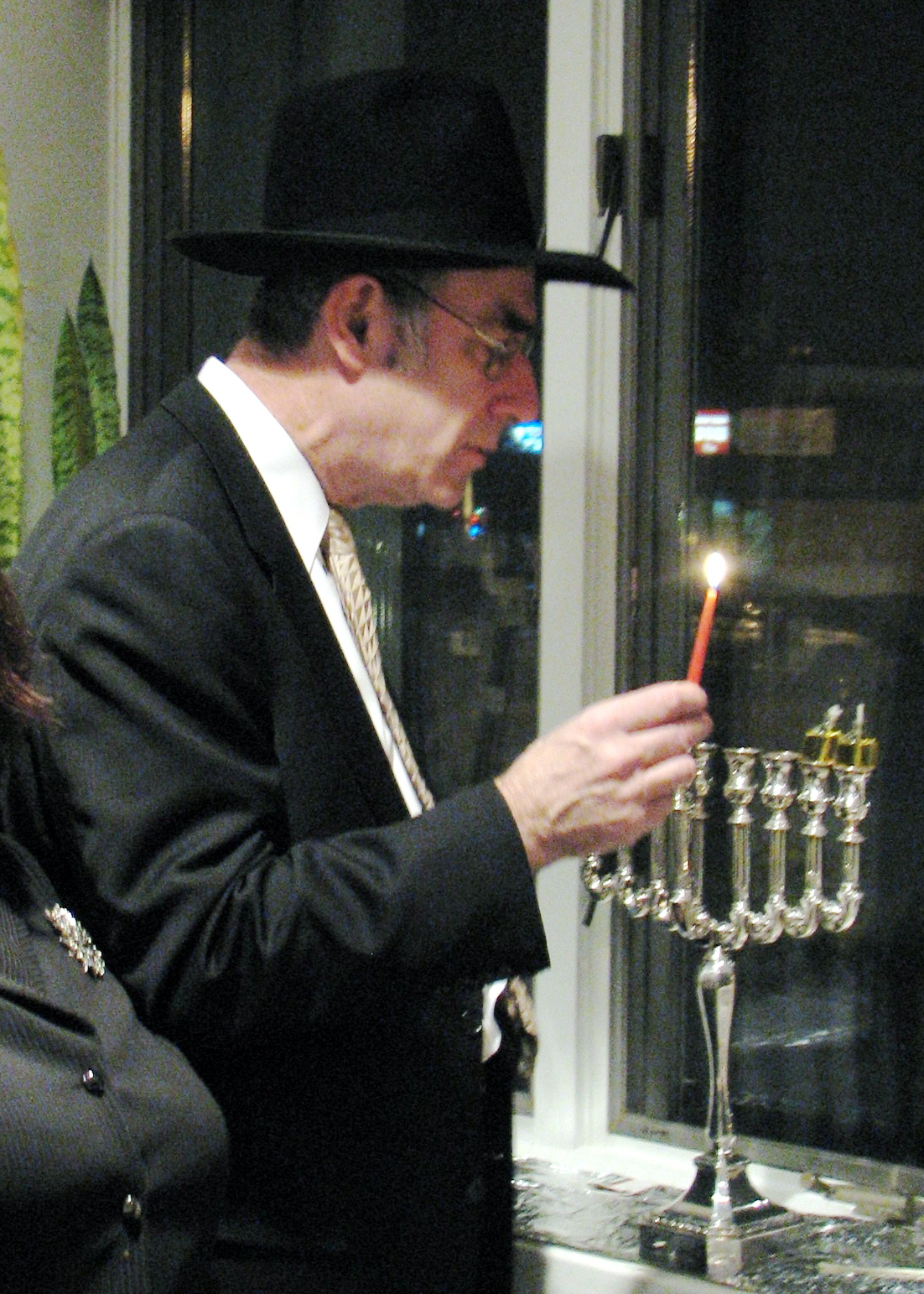 Rabbi Yudin lighting Chanukah candles, 2007. Author: B. Goldman